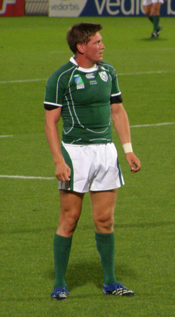 Irish rugby union player Ronan O'Gara during 2007 World Cup match against Georgia on Stade Chaban Delmas, Bordeaux, France.